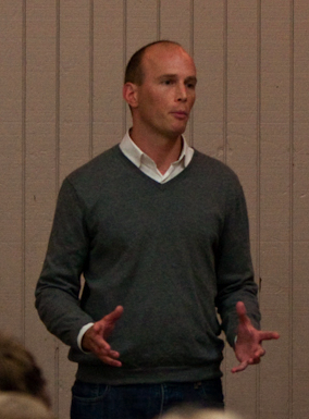 Minneapolis City Council Member Gary Schiff makes his opening statement at a 9th Ward Candidate Forum on October 29, 2009.